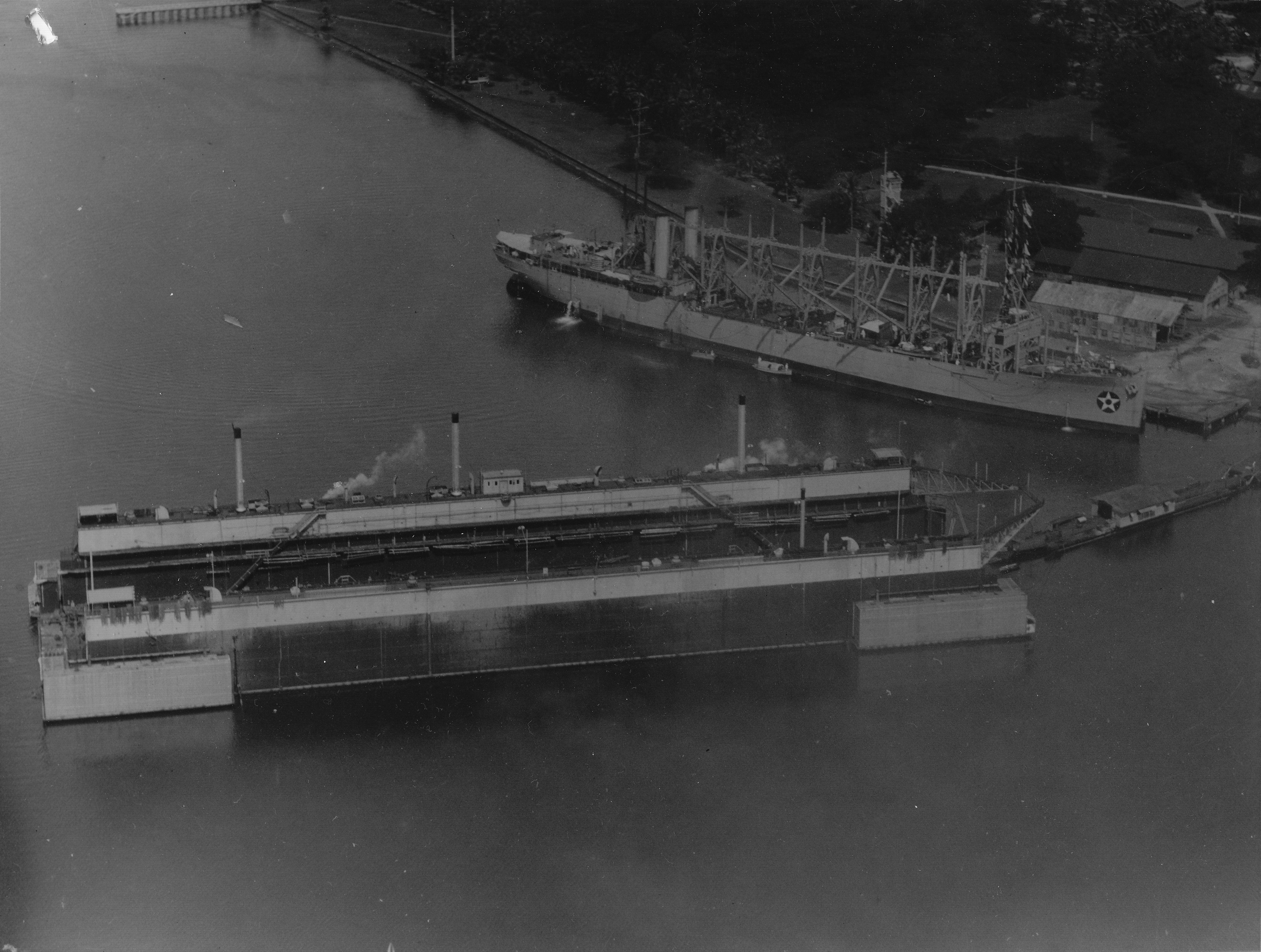 Aerial view of the Dewey Drydock in the harbor of the Olongapo Naval Station (later the U.S. Naval Base Subic Bay) in the Philippine Islands in October 1928. The USS Jason is nearby.